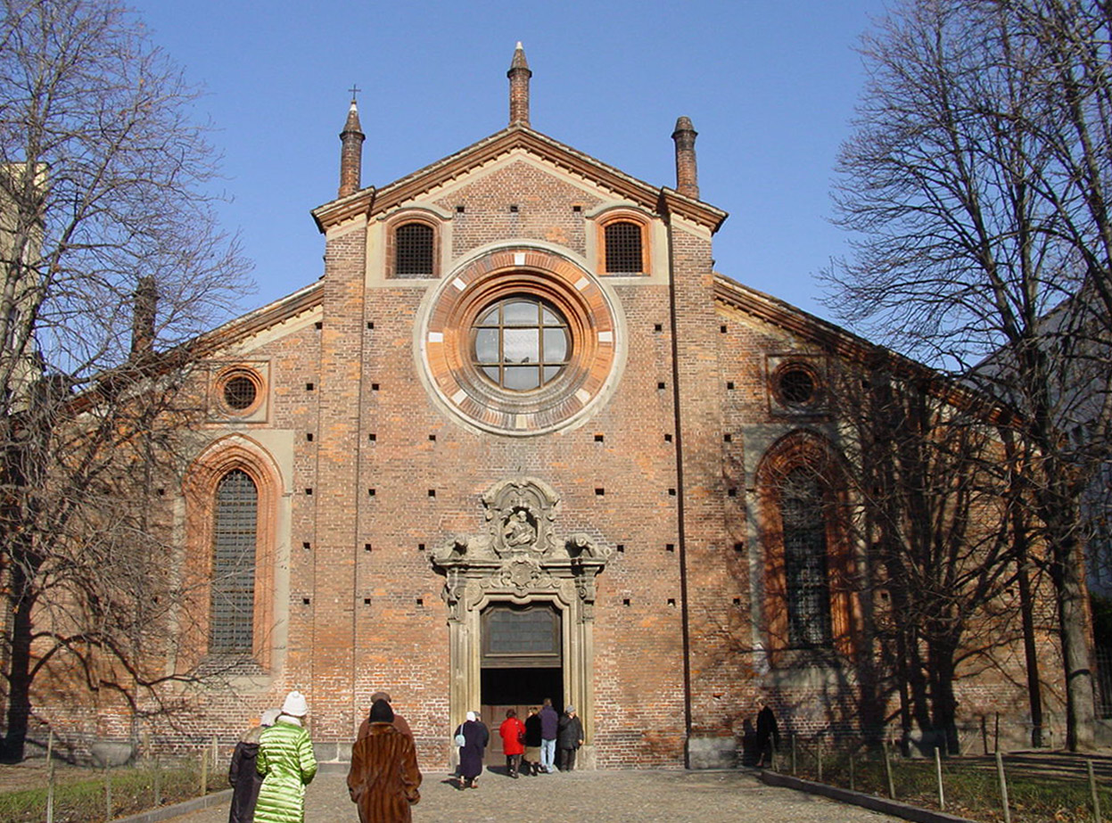 San Pietro in Gessate church in Milan, Italy. The Gothic-revival style facade, rebuilt in 1912 by Pietro Brioschi, who only spared the baroque-style portal from the older one.